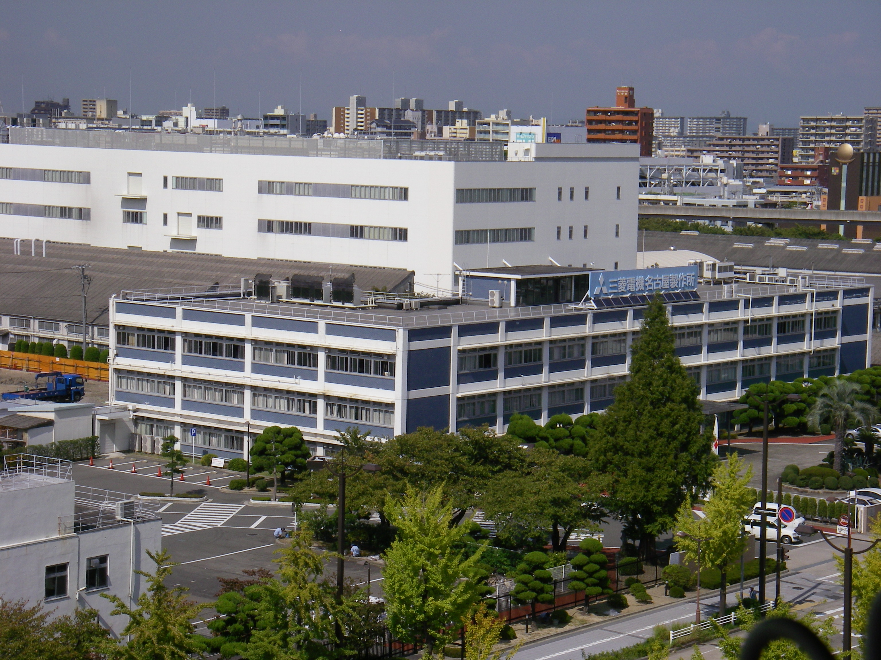 Mitsubishi Electric Corporation Nagoya